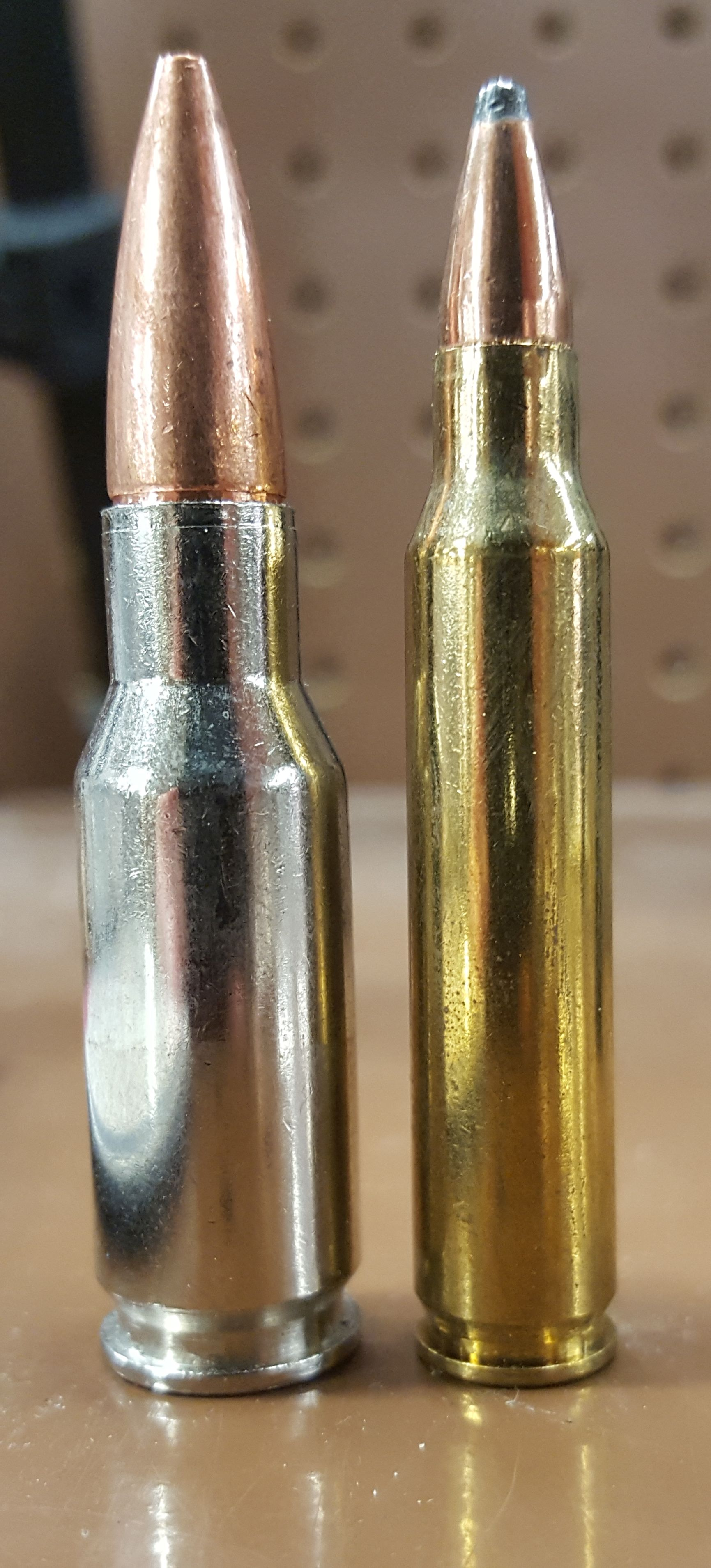 Size comparison of .30 Remington AR and .223 Remington cartridges.